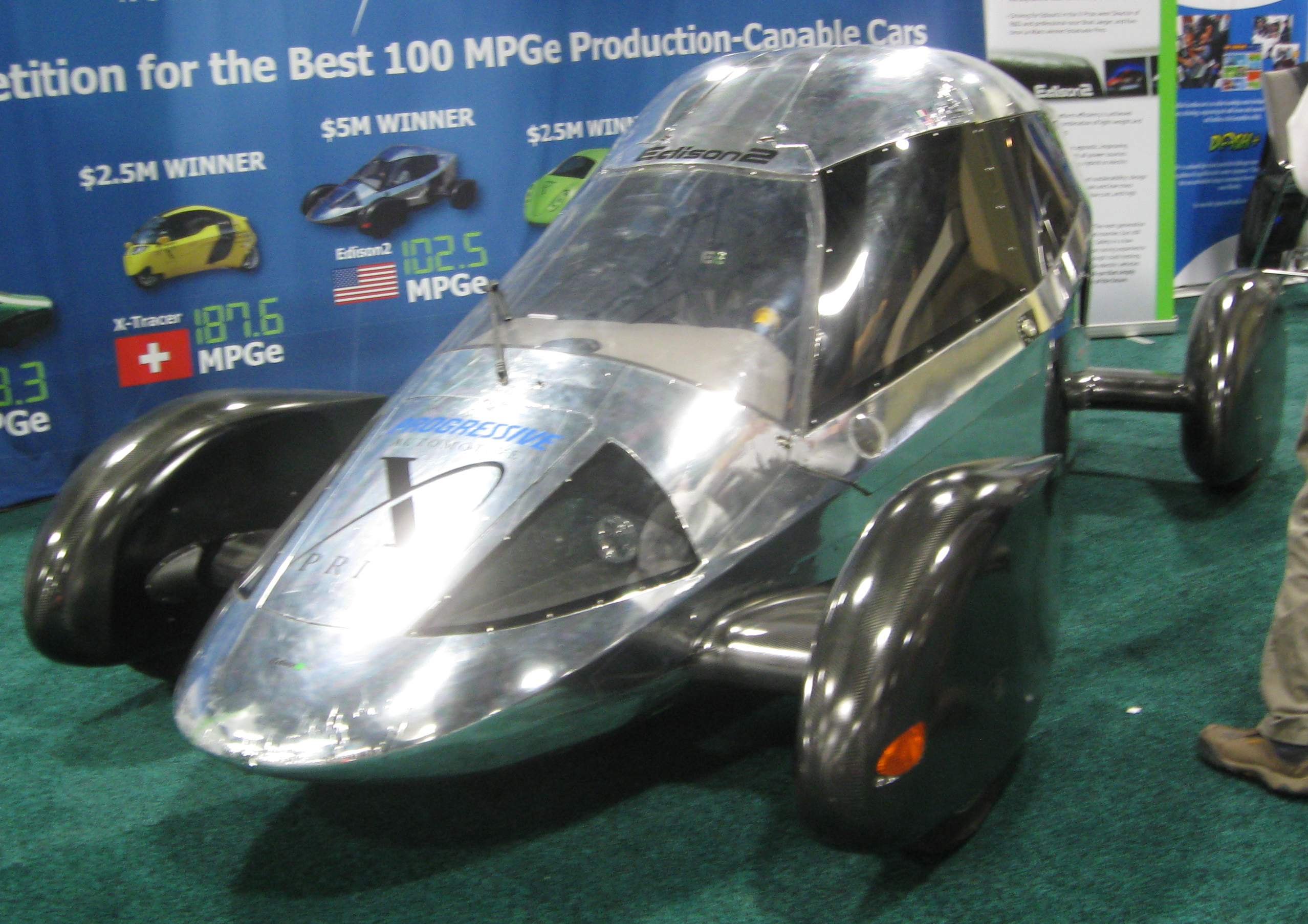 The Very Light Car photographed at the 2011 Washington (D.C.) Auto Show.